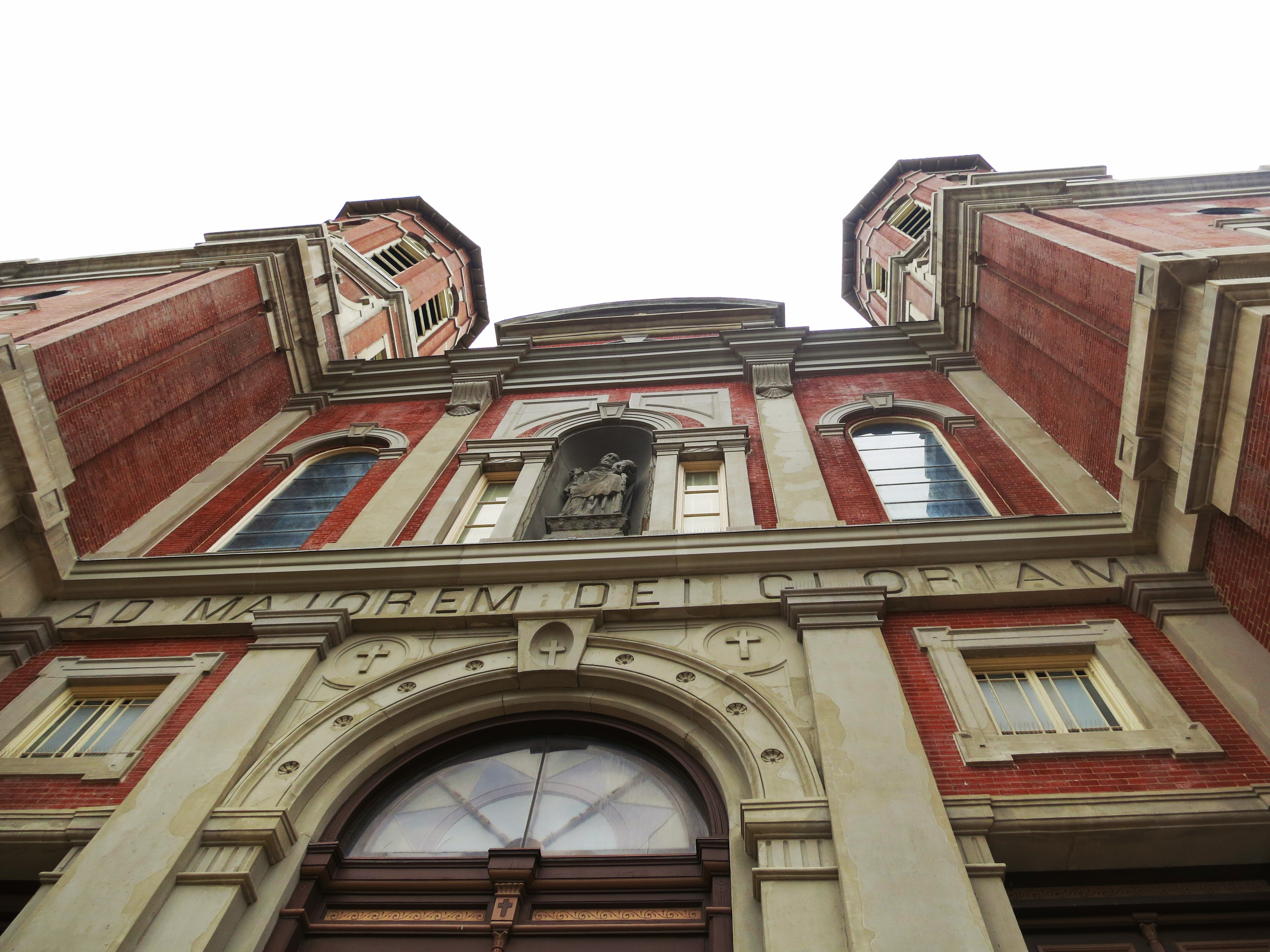 Shrine of St. Joseph entranceway.